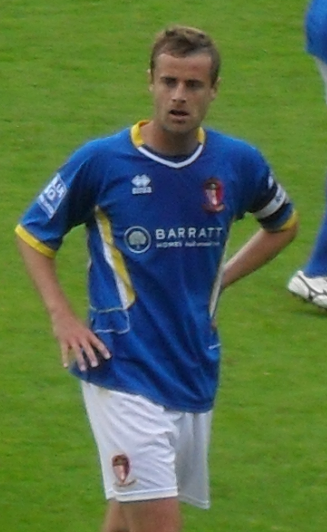 Peter Holmes playing for Hayes & Yeading United against York City at Bootham Crescent, York on 18 September 2010